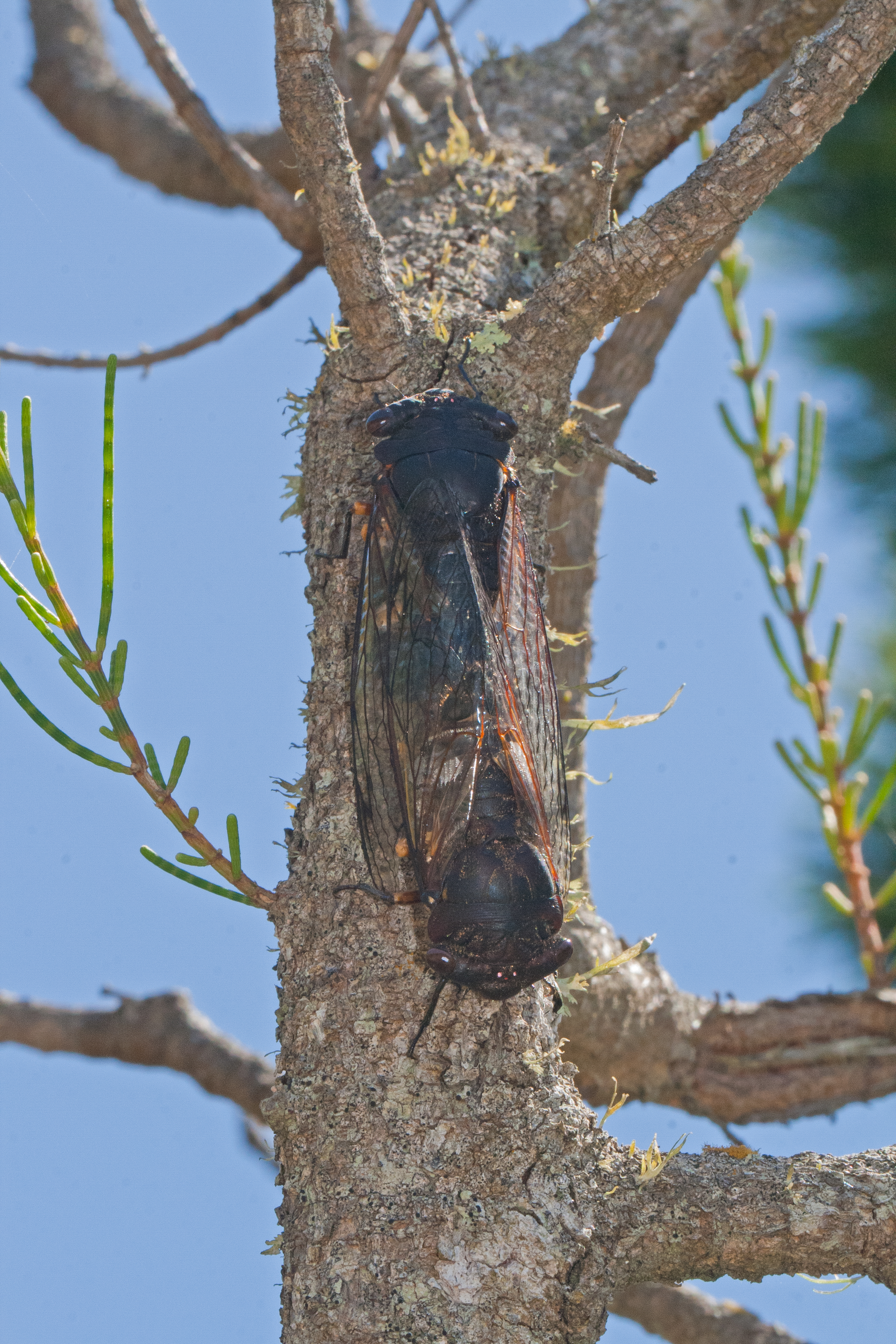 Psaltoda plaga (Black Prince cicadas) near Bawley Point, New South Wales.